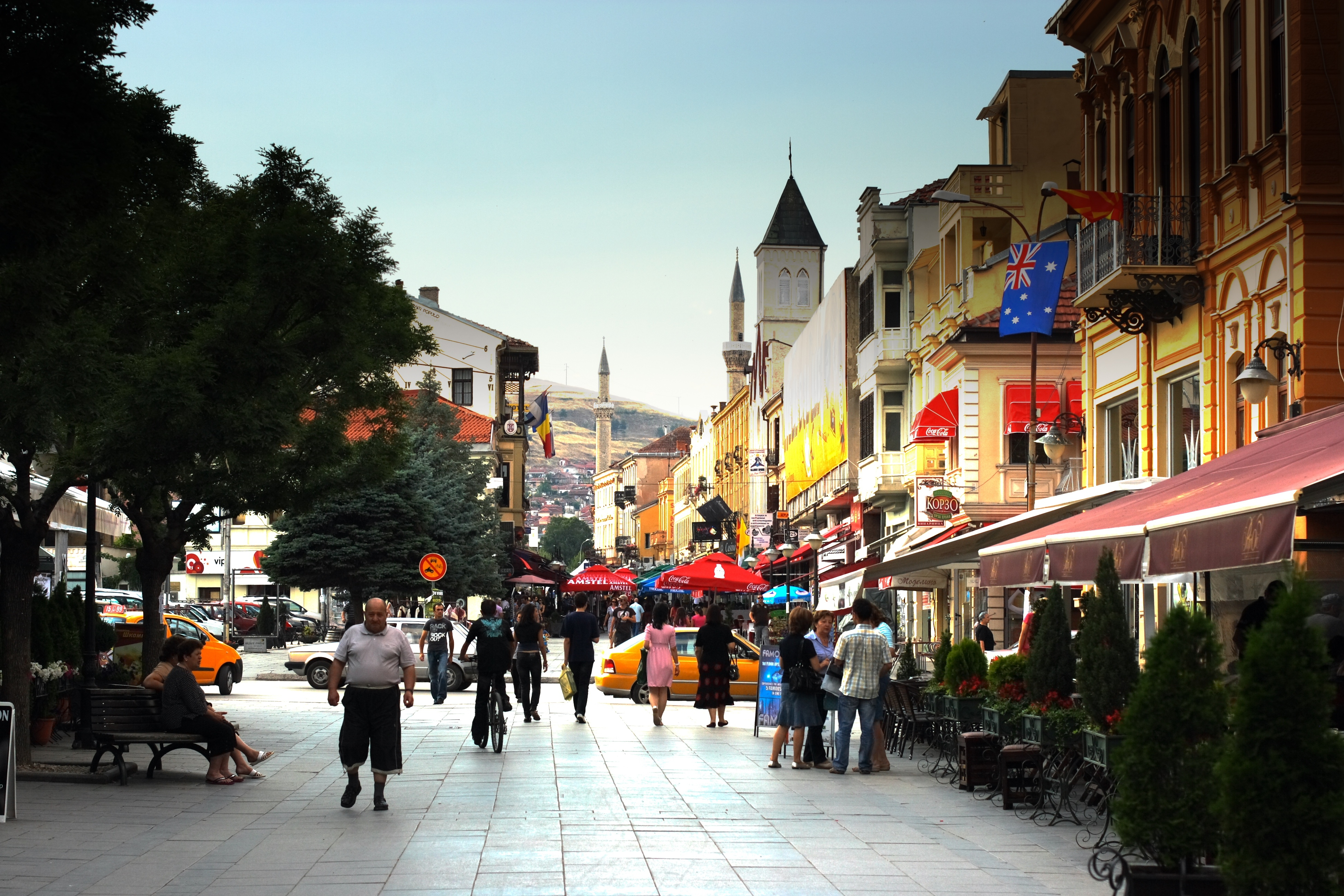 Macedonia, July 2011 Macedonia